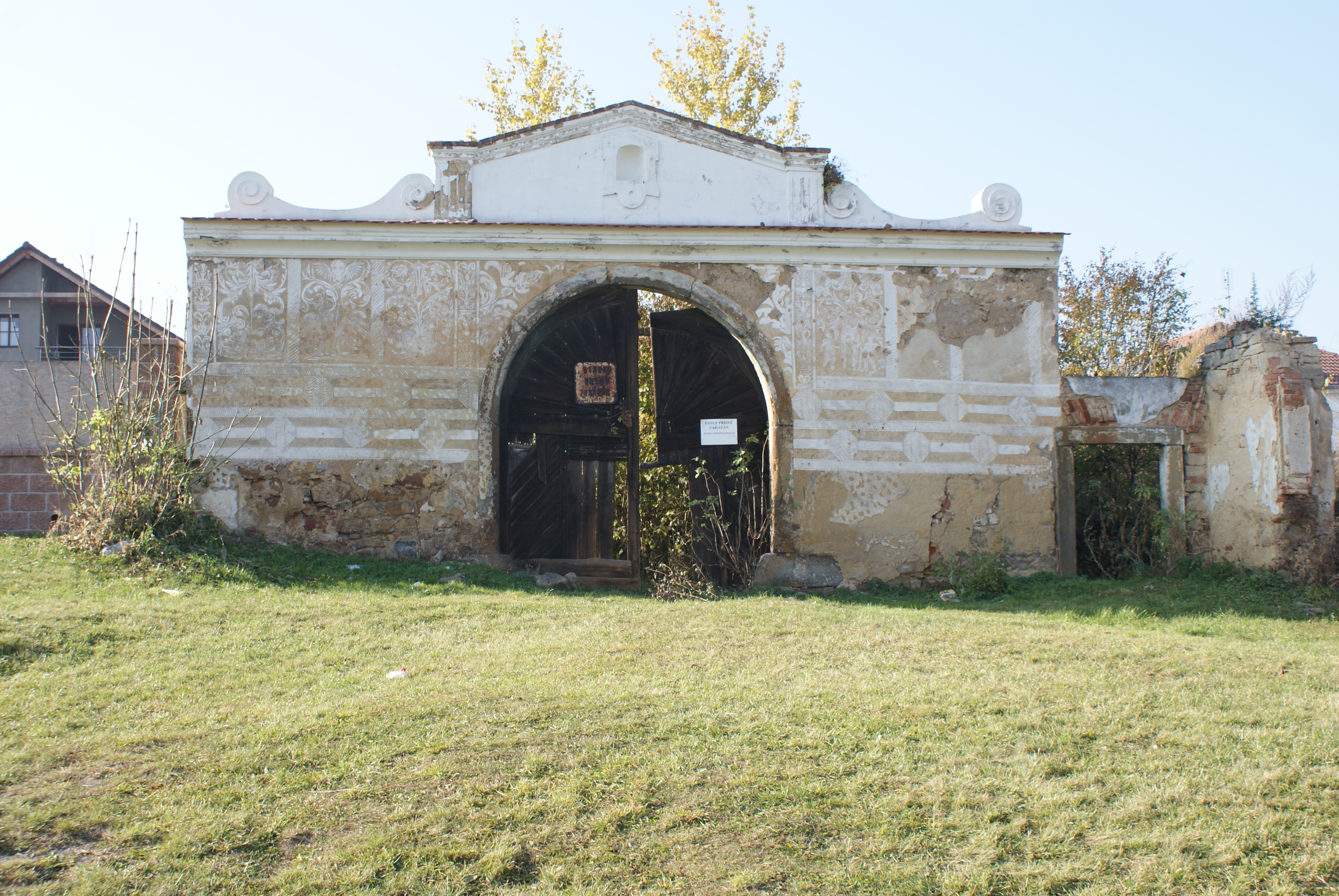 Podolanka, a village in the Prague-East District, Czech Republic, an old gate on the village common.